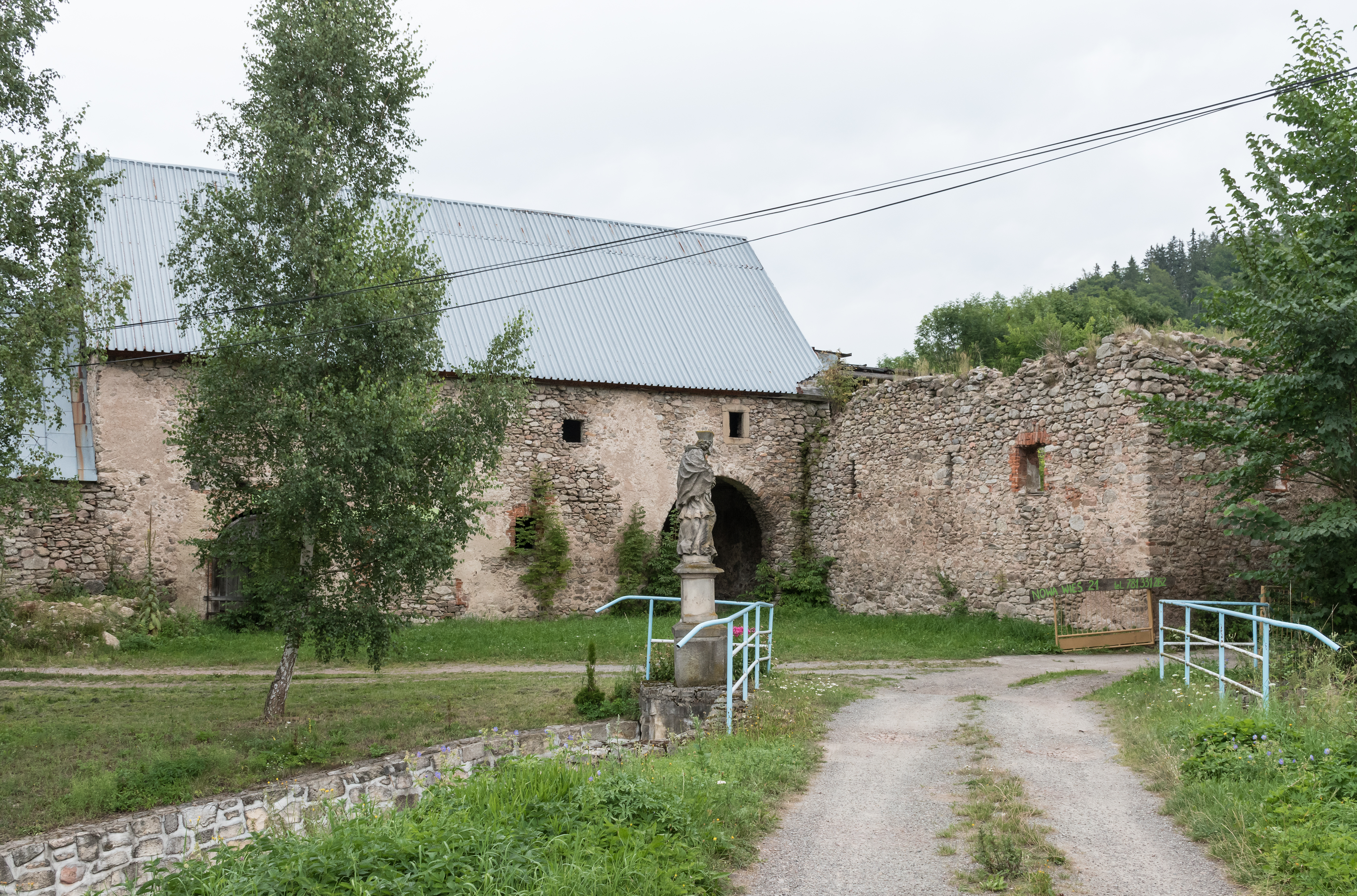 Ruins of manor house in Nowa Wieś Wikidata has entry Q30049070 with data related to this item.